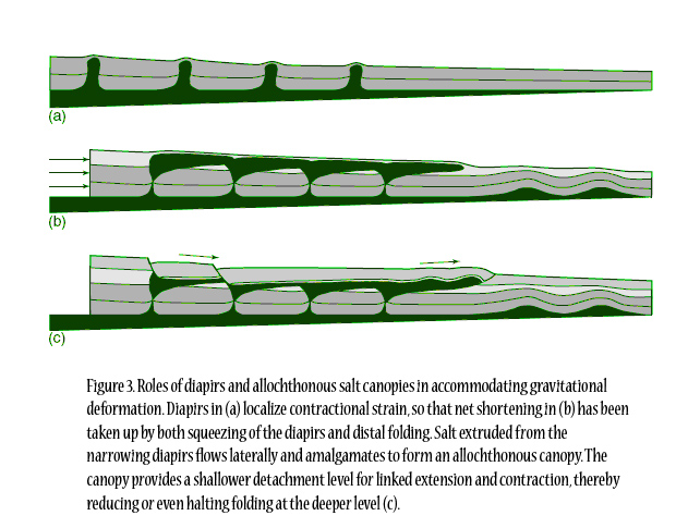 Figure 3. Roles of diapirs and allochthonous salt canopies in accommodating gravitational deformation. Diapirs in (a) localize contractional strain, so that net shortening in (b) has been taken up by both squeezing of the diapirs and distal folding. Salt extruded from the narrowing diapirs flows laterally and amalgamates to form an allochthonous canopy. The canopy provides a shallower detachment level for linked extension and contraction, thereby reducing or even halting folding at the deeper level (c).